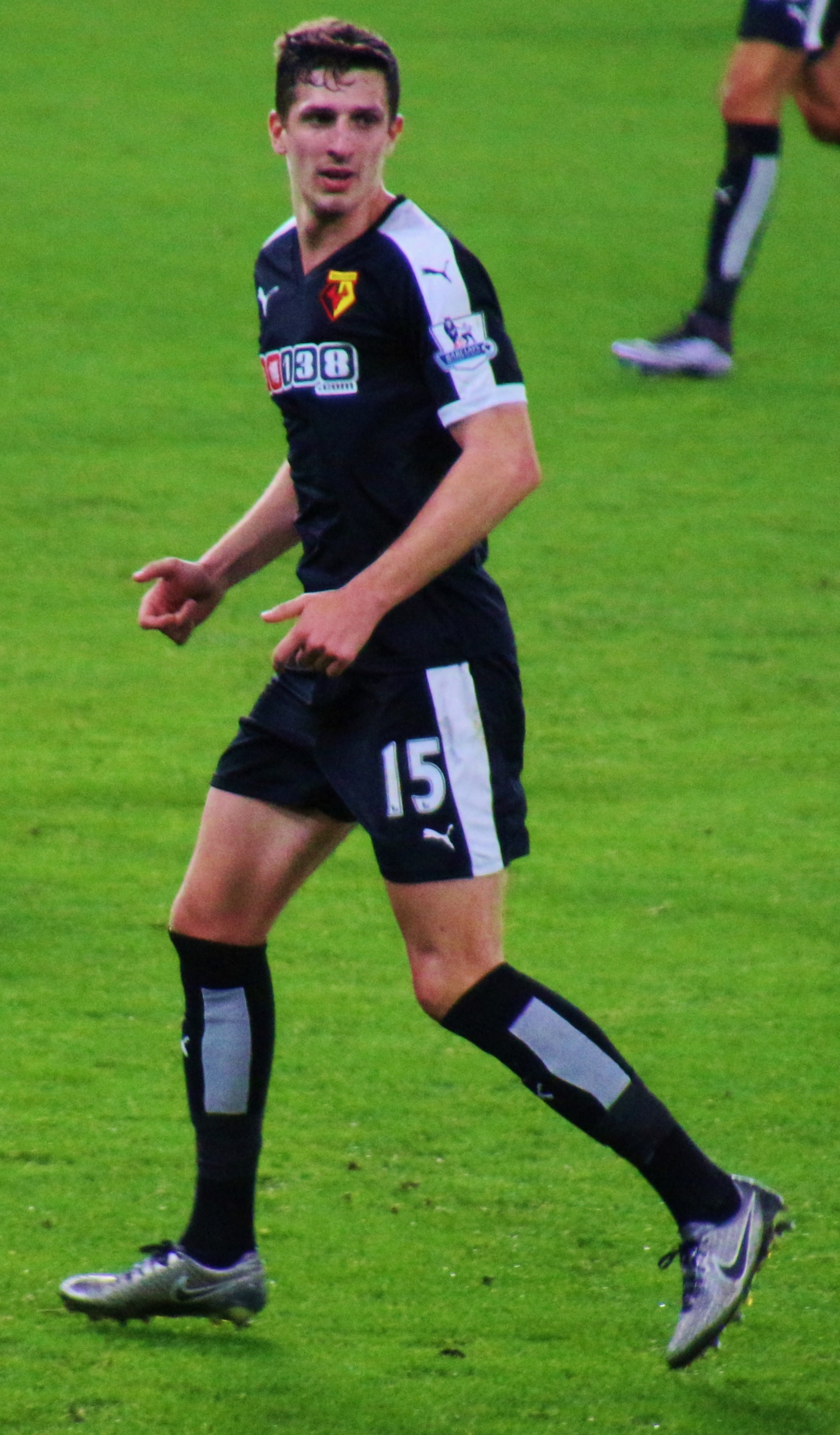 Craig Cathcart